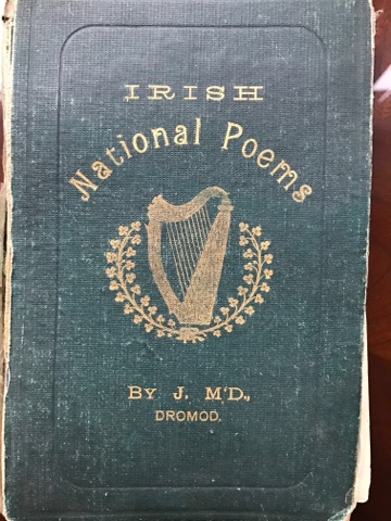 Front Cover, Irish National Poems, 1886, J McD of Dromod. Original edition held by Keenhans Hotel, Tarmonbarry, Co. Roscommon.